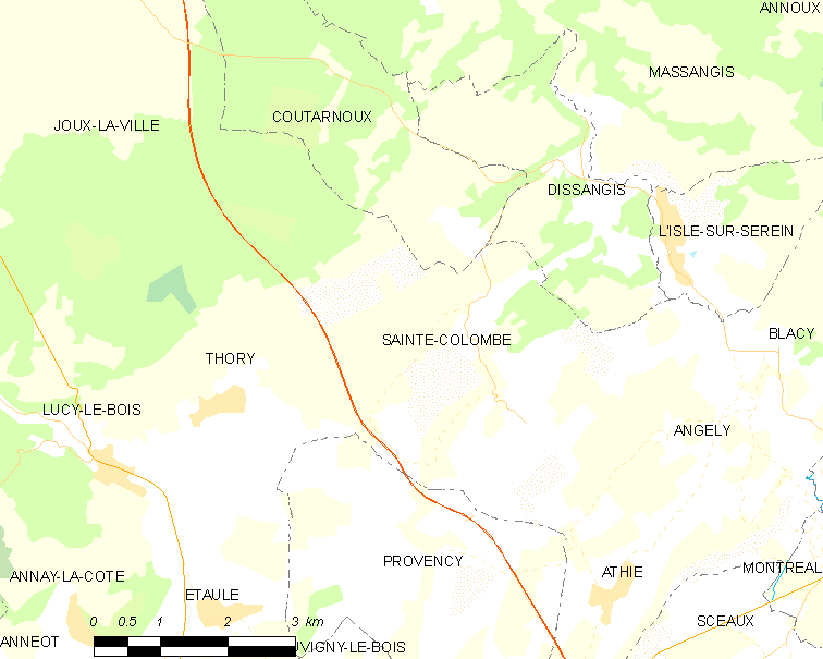 Map of French municipality Sainte-Colombe